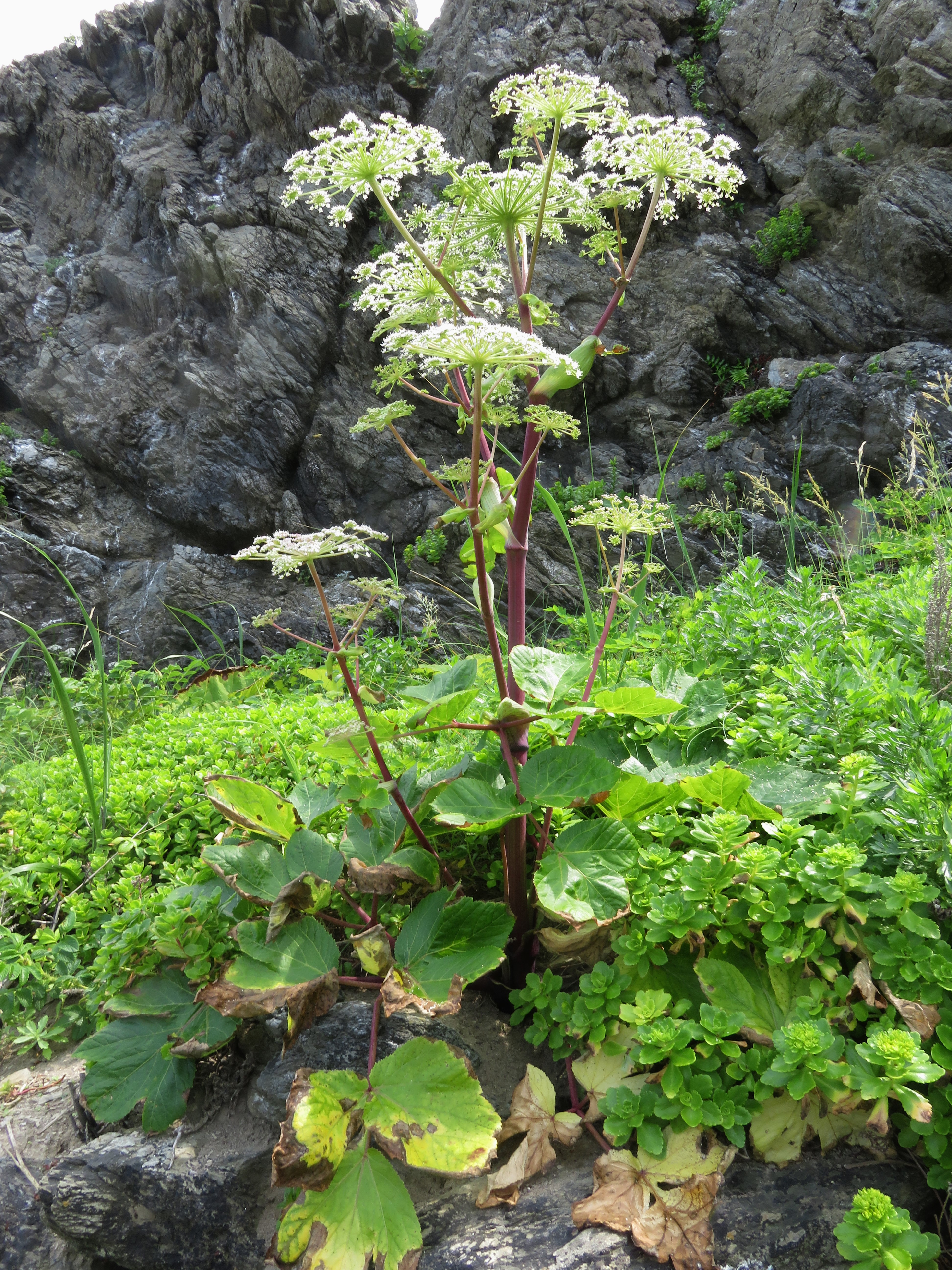 Angelica edulis, Cape Shiriya, Aomori pref., Japan